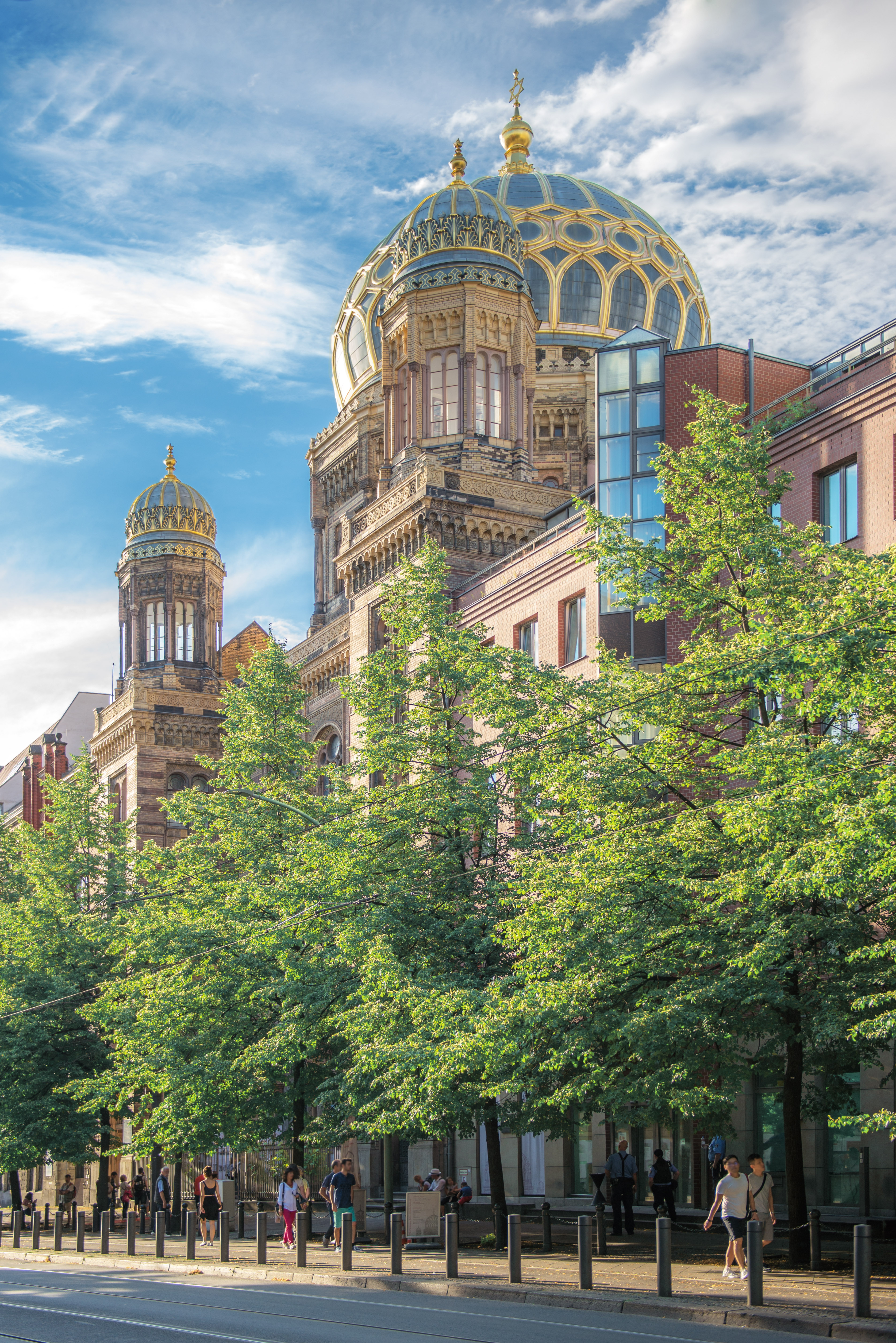 The New Synagogue on Oranienburger Straße